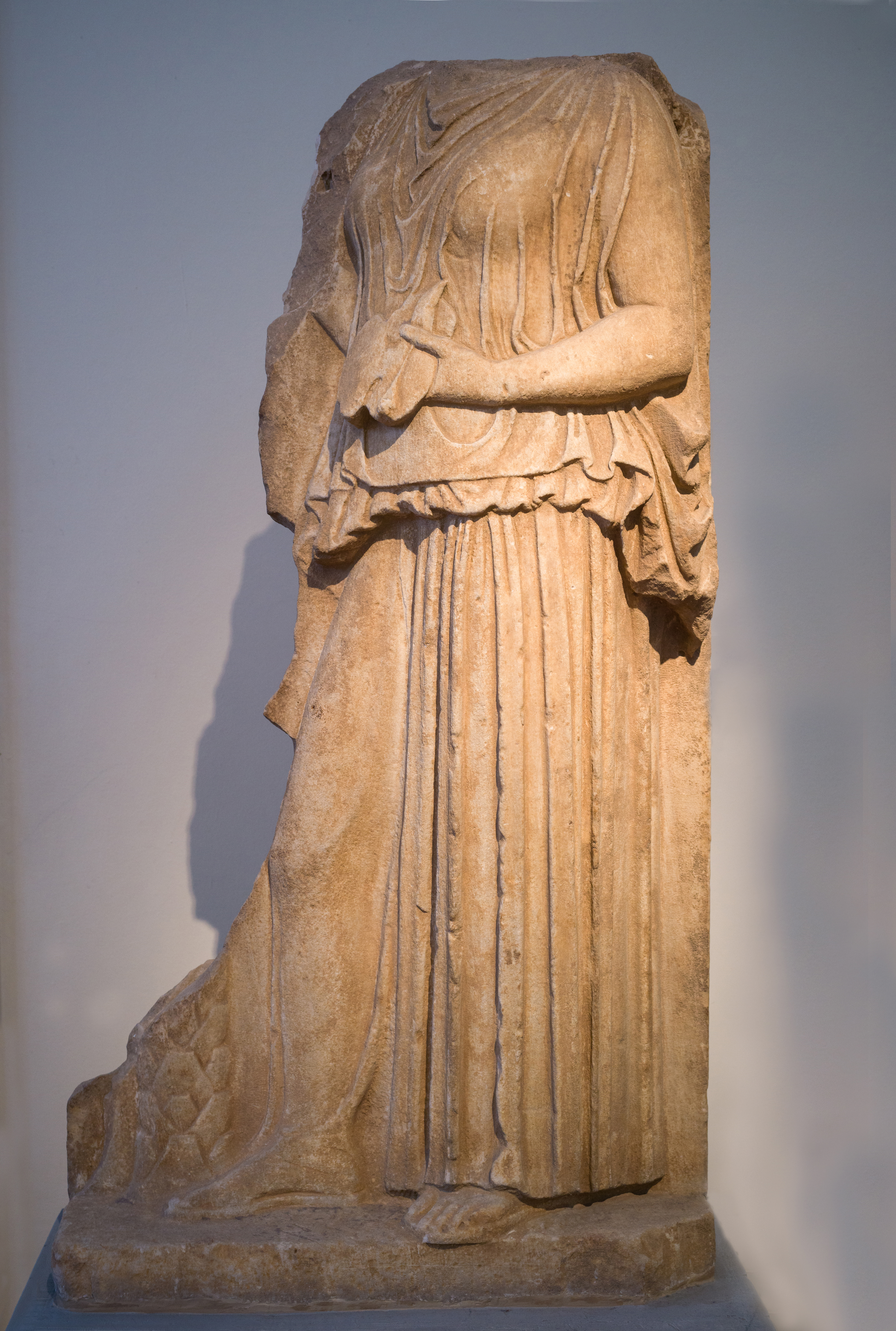 Relief of a woman holding the liver of a sacrificial victim, probably Diotima of Mantineia Arcadia in pentelic marble. #226 - National Archaeological Museum of Athens.